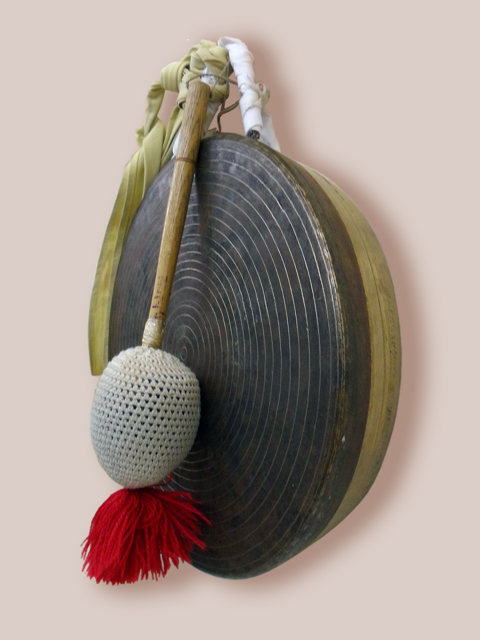 Jing, traditional Korean gong